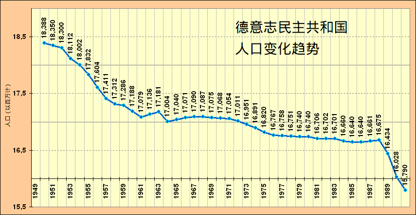 Graph of population tend of GDR in Chinese, from German Wikipedia: Datei:Bev_DDR.png